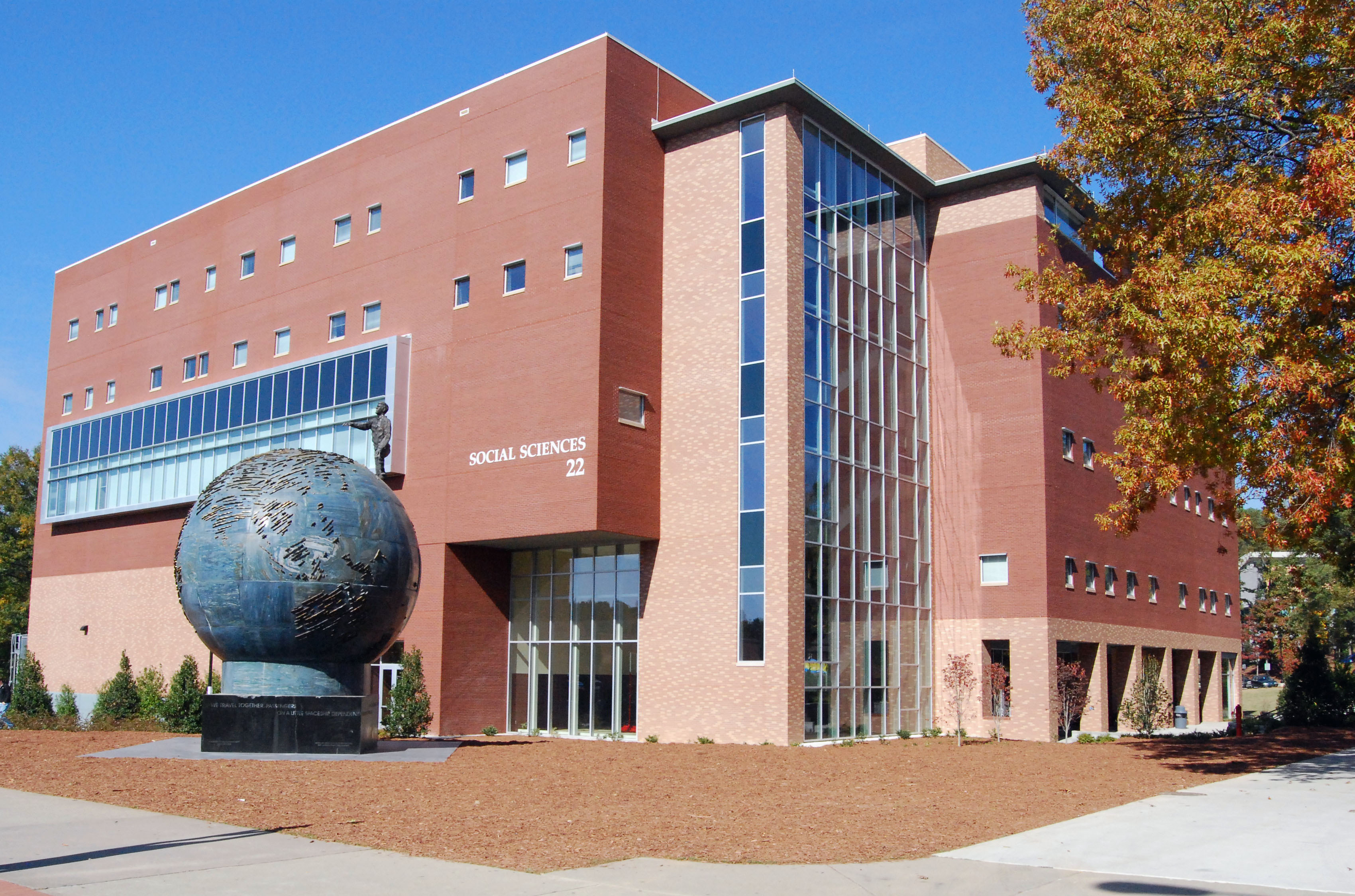 Image of the Kennesaw State University Social Science Building and Spaceship Earth